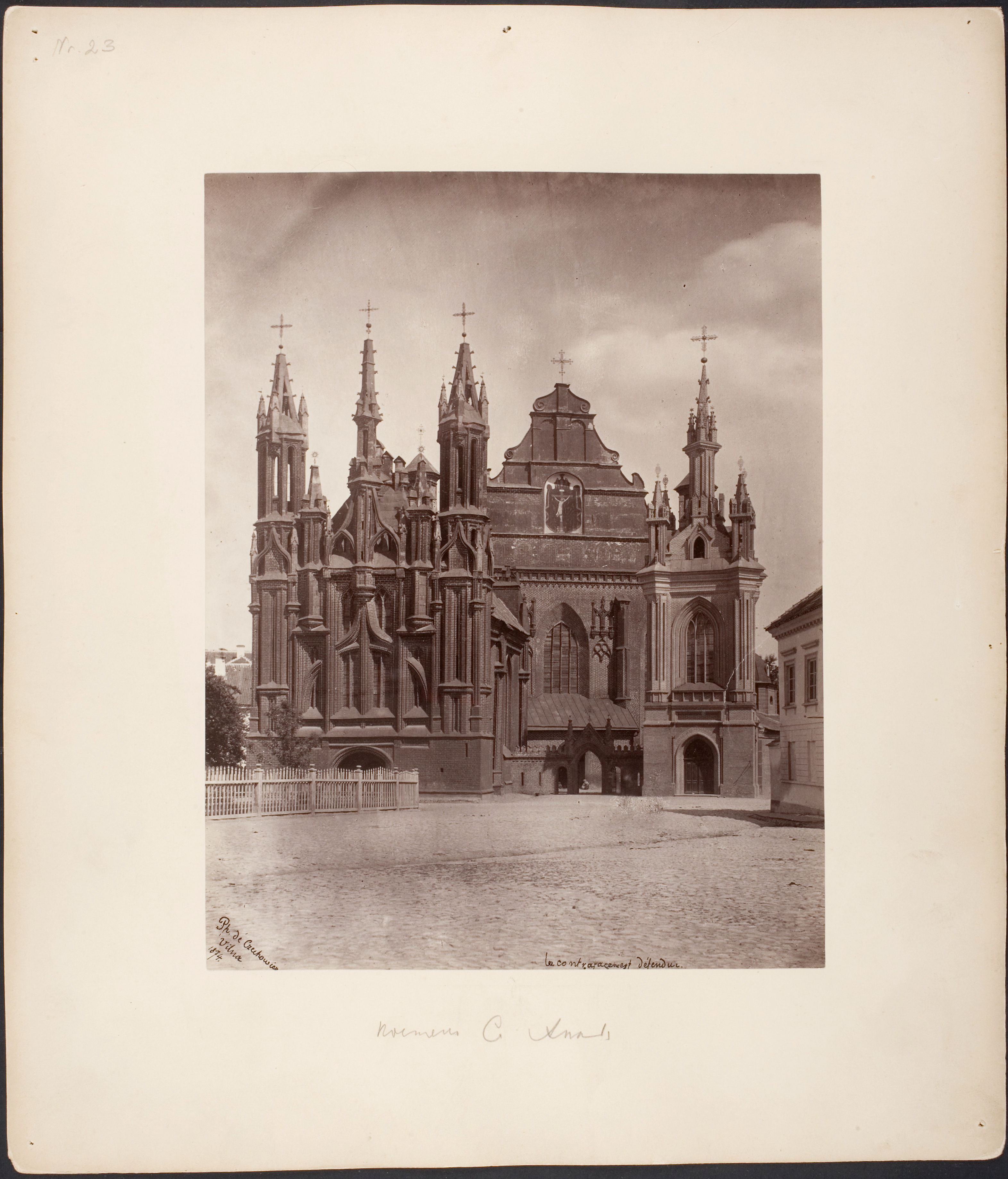 St. Anne's Church and Church of St. Francis and St. Bernard by Juozapas Čechavičius